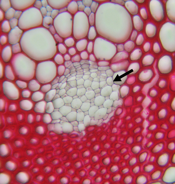 Phloem tissue from a stem